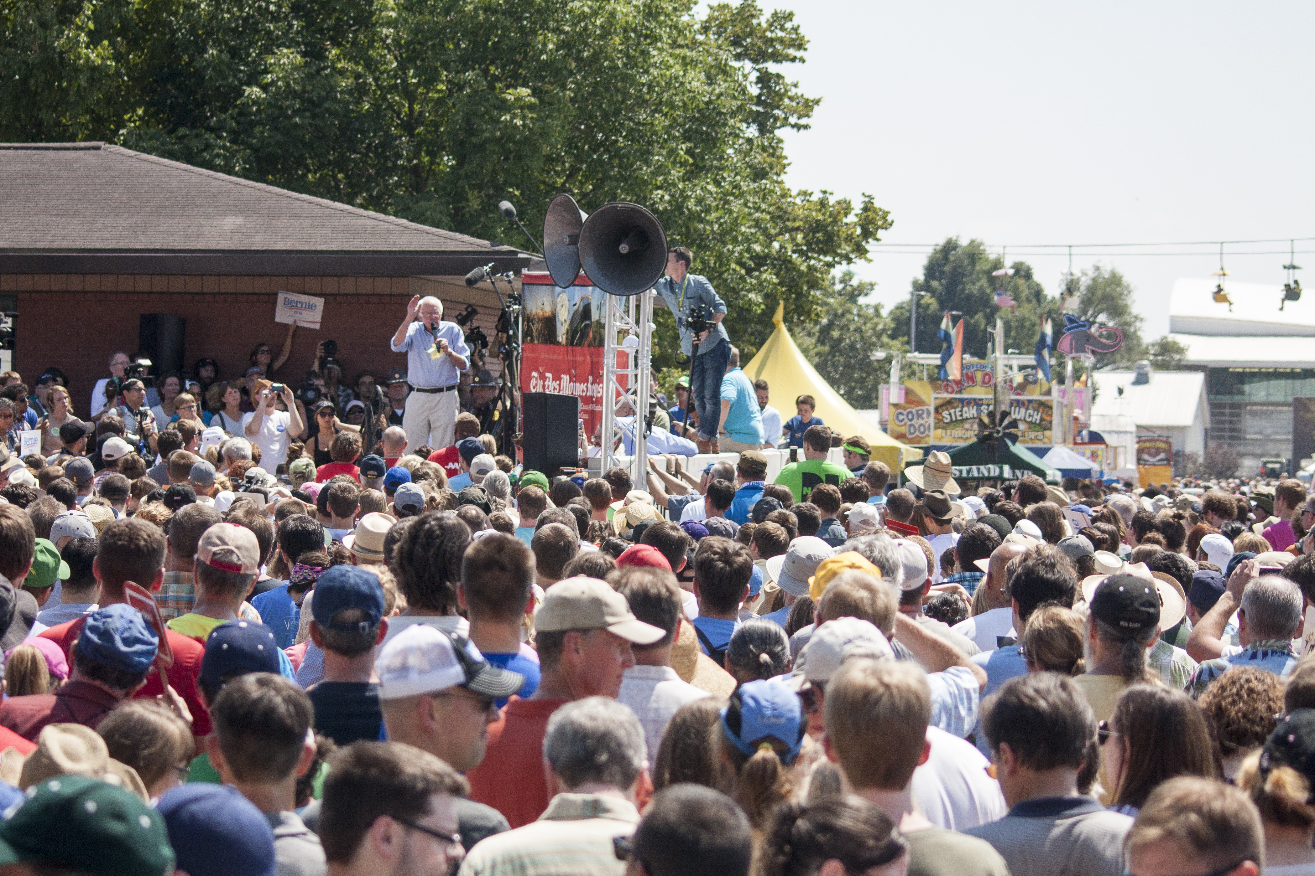 Bernie Sanders speaks to thousands of people during his remarks at the Des Moines Register's political soapbox at the State Fair.